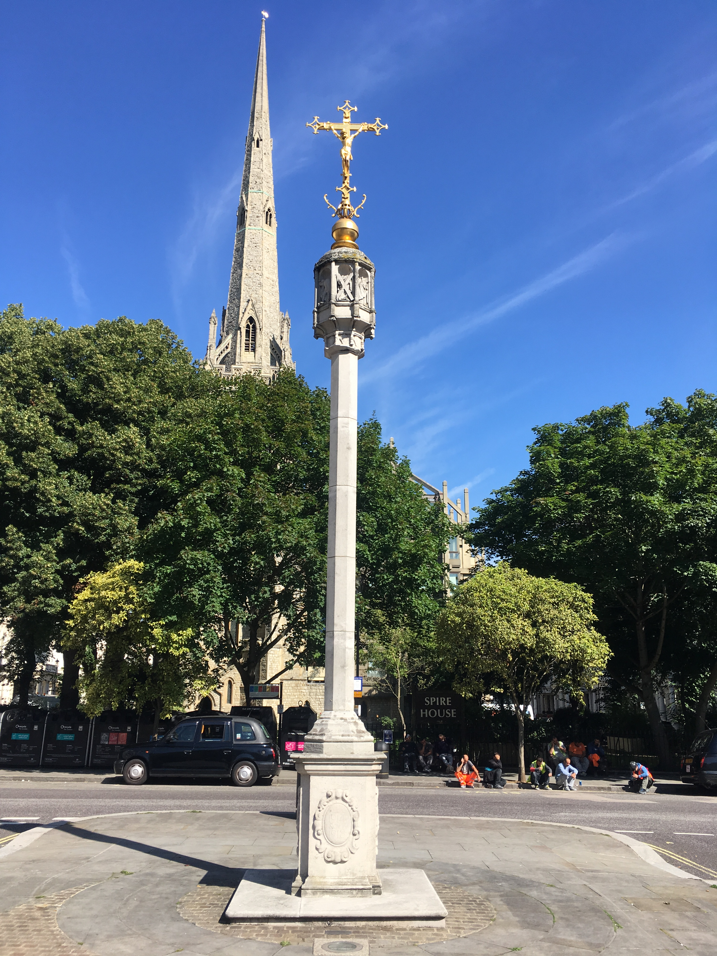 Lancaster Gate Memorial Cross Wikidata has entry Q26516070 with data related to this item.